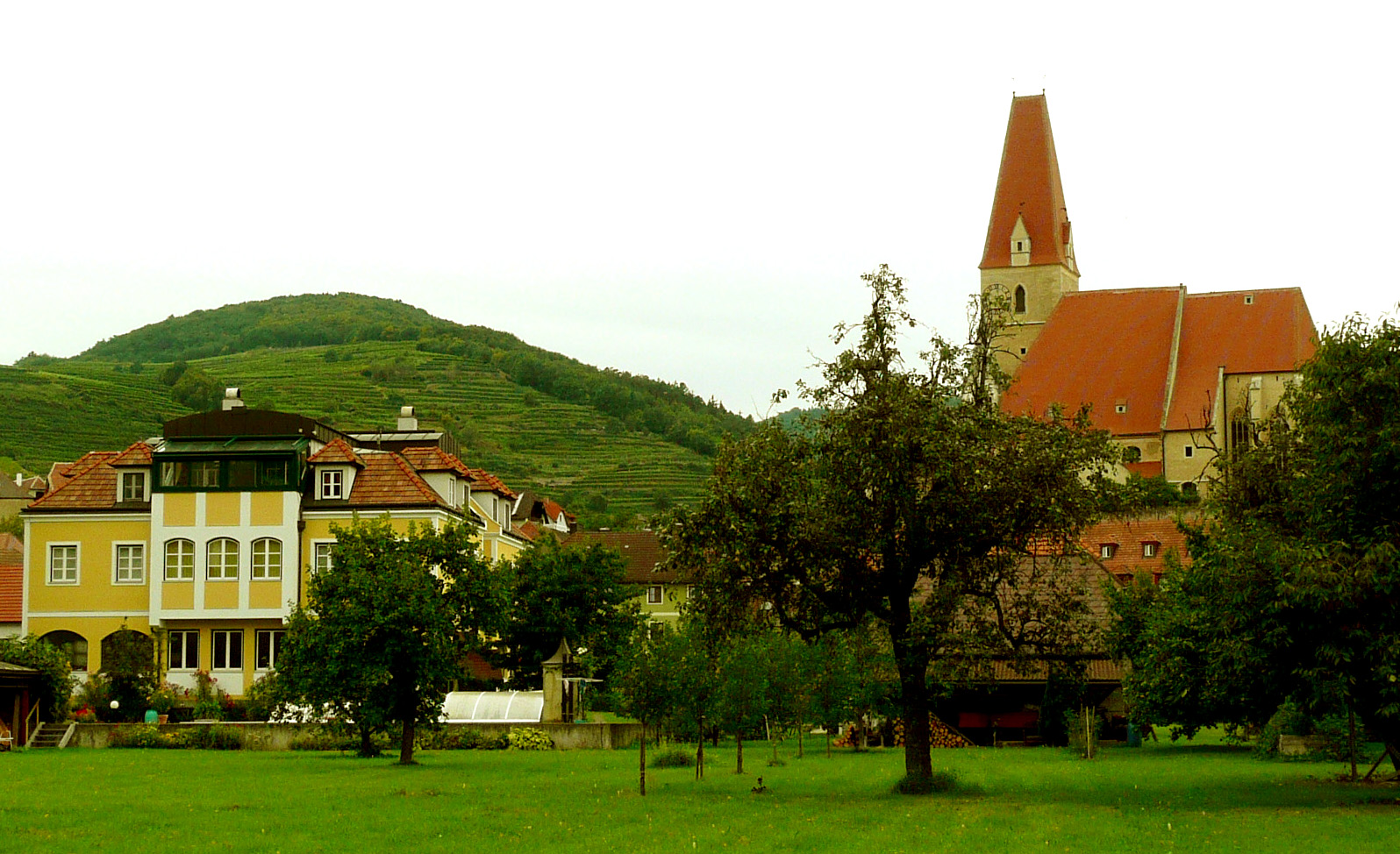 Village and church in 2008